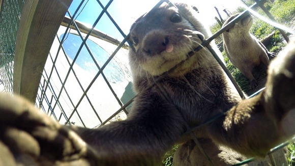 Self-portrait by an Asian short-clawed otter named Musa, Washington Wetland Centre in Tyne and Wear. It used a GoPro camera from an Press Association photographer.